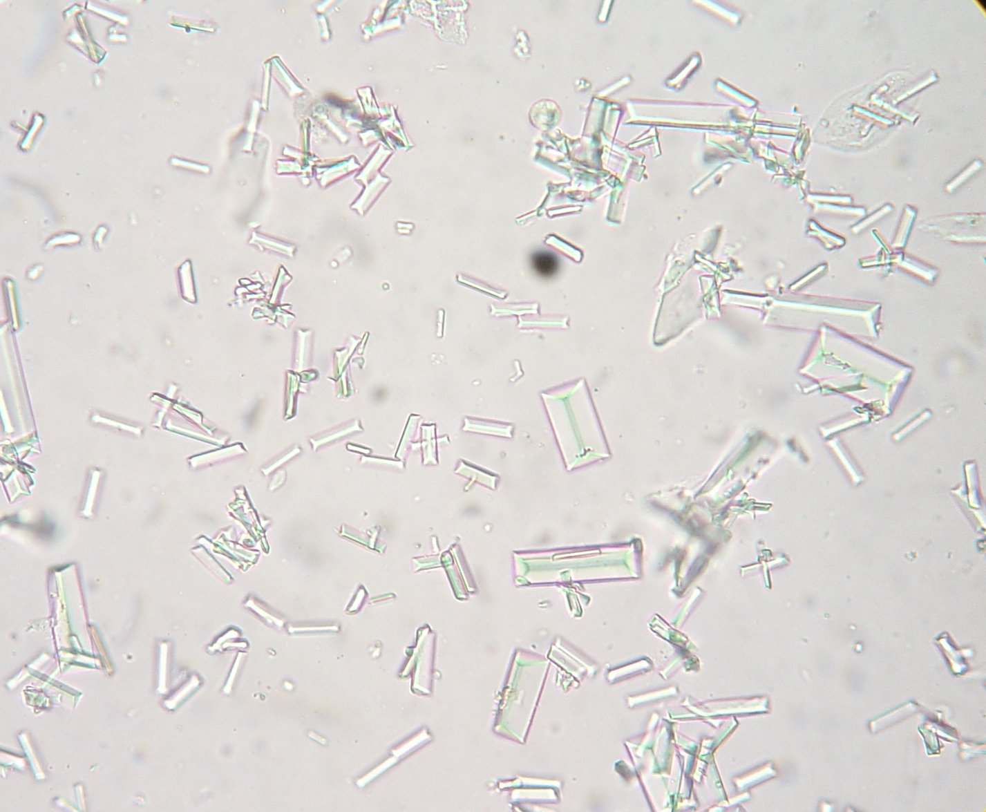 Struvite (magnesium ammonium phosphate) crystals found microscopically in a urinalysis of a dog with a bladder infection.